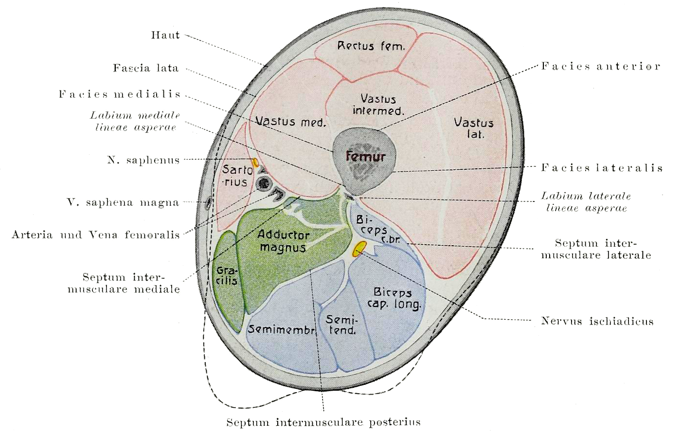 An anatomical illustration from the 1921 German edition of Anatomie des Menschen: ein Lehrbuch für Studierende und Ärzte with latin terminology.